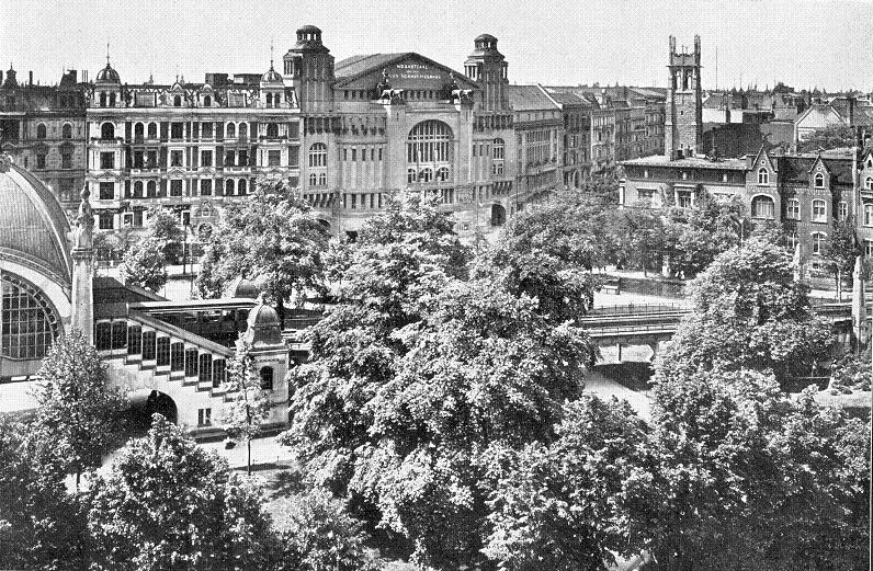 Nollendorfplatz in Berlin-Schöneberg, 1905/06 or later: Beginning of Motzstraße with left Neues Schauspielhaus theater and concert venue (1905/06 by architects Albert Fröhlich und Otto Rehnig for Boswau & Knauer) and right the tower of the American Church in Berlin (built in 1903).